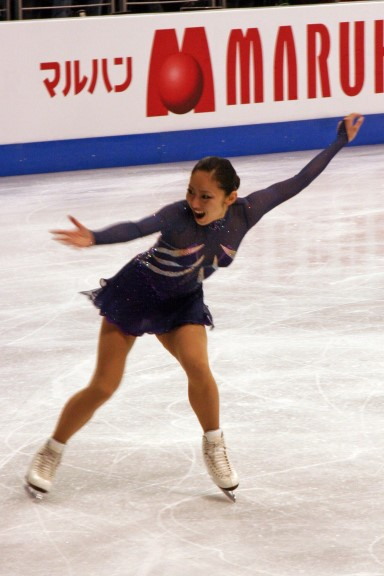 Miki Ando at the the 2009 World Championships.